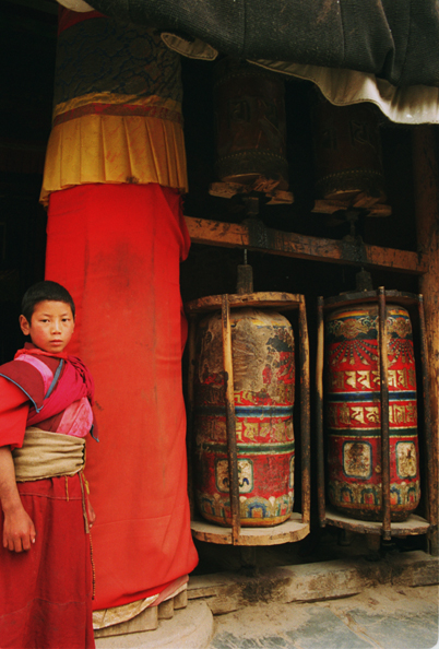 Boy and Prayer Wheels Labrang Monastery, Xiahe, Gansu, China Photo by Christopher M. Cline